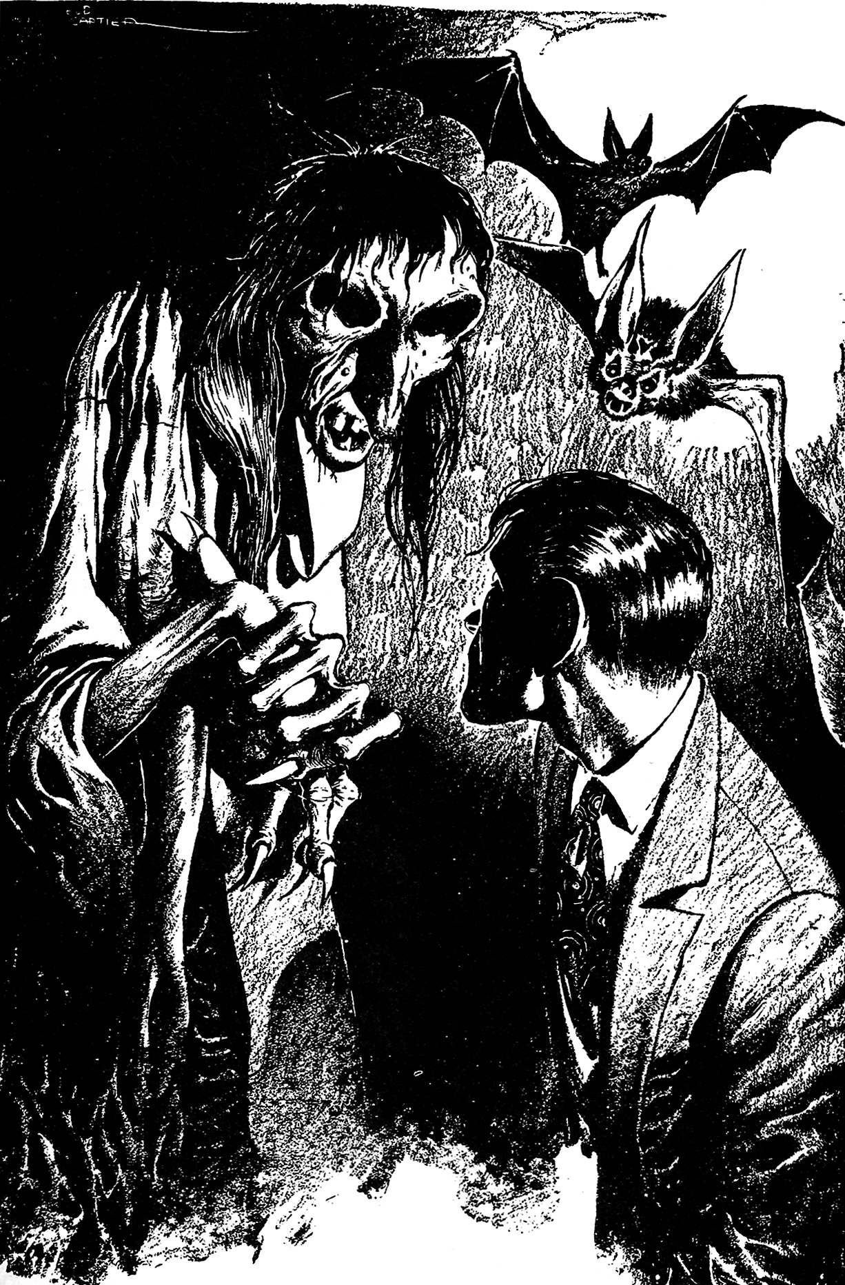 The fictional character James Lowry encounters demons and ghosts during a psychotic breakdown.